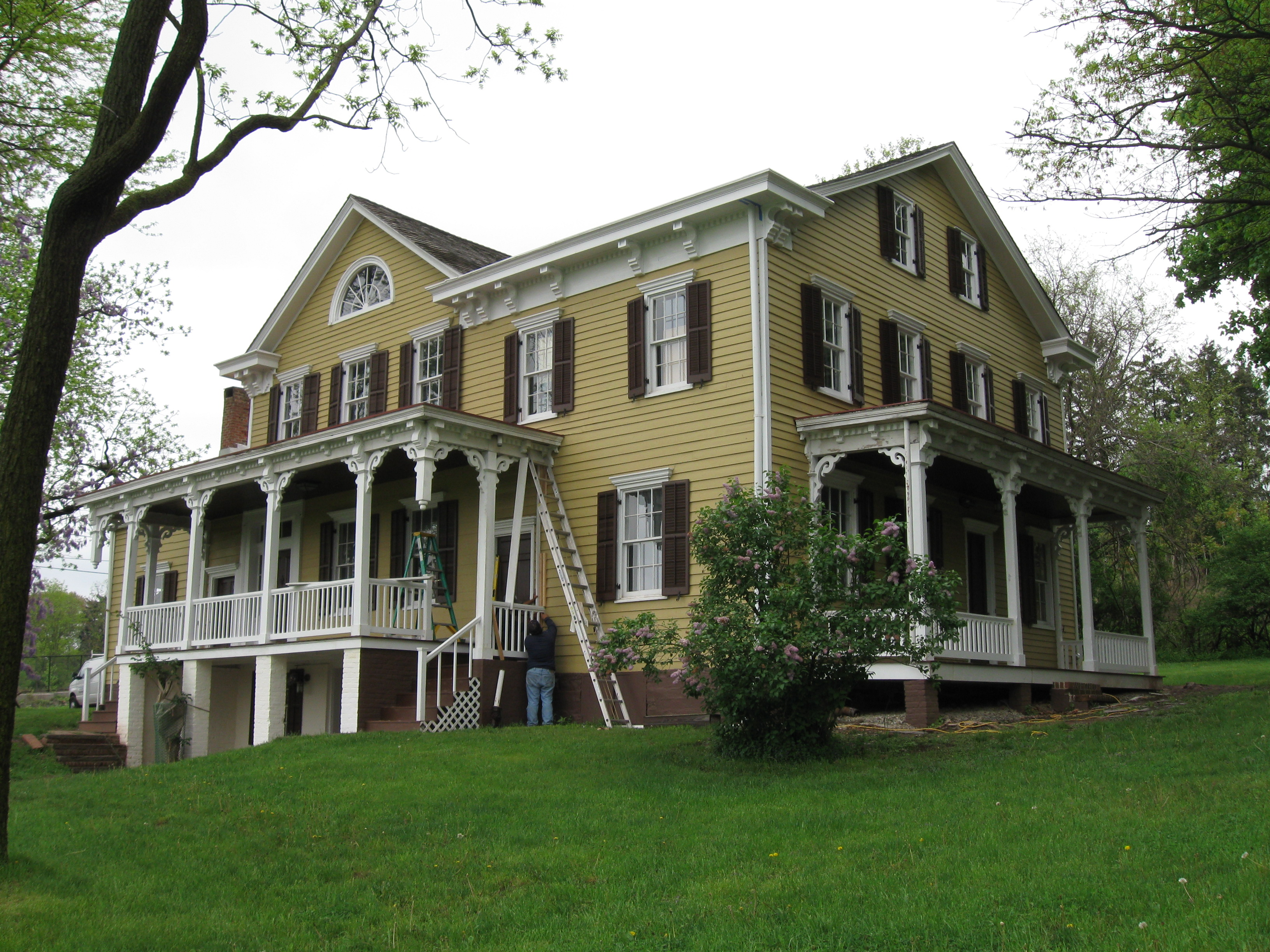 Phase IIIA Exterior Restoration